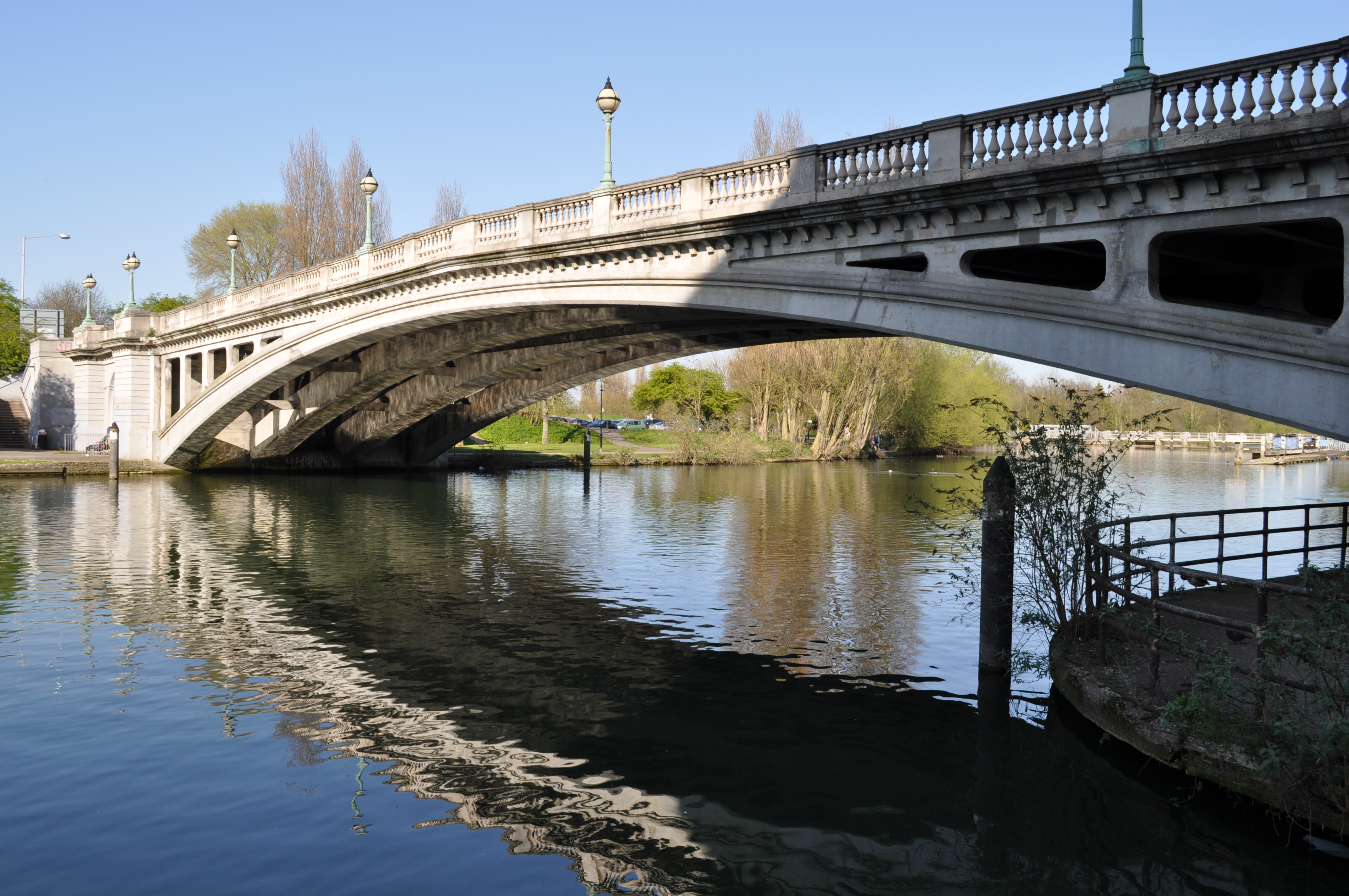 Reading Bridge, River Thames, Reading, England